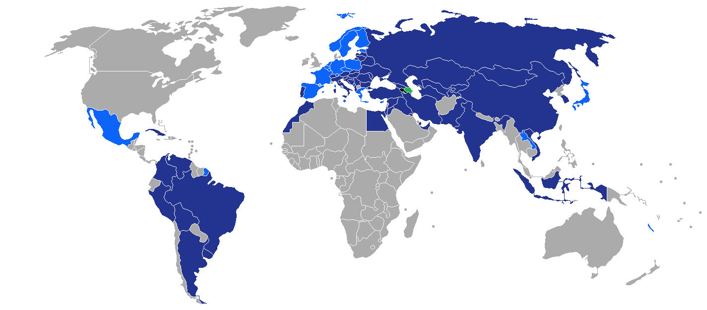 Visa policy of Azerbaijan for holders of diplomatic and service category passports Azerbaijan Visa free access for diplomatic and service category passports Visa free access for diplomatic passports Visa required prior to arrival Entry banned